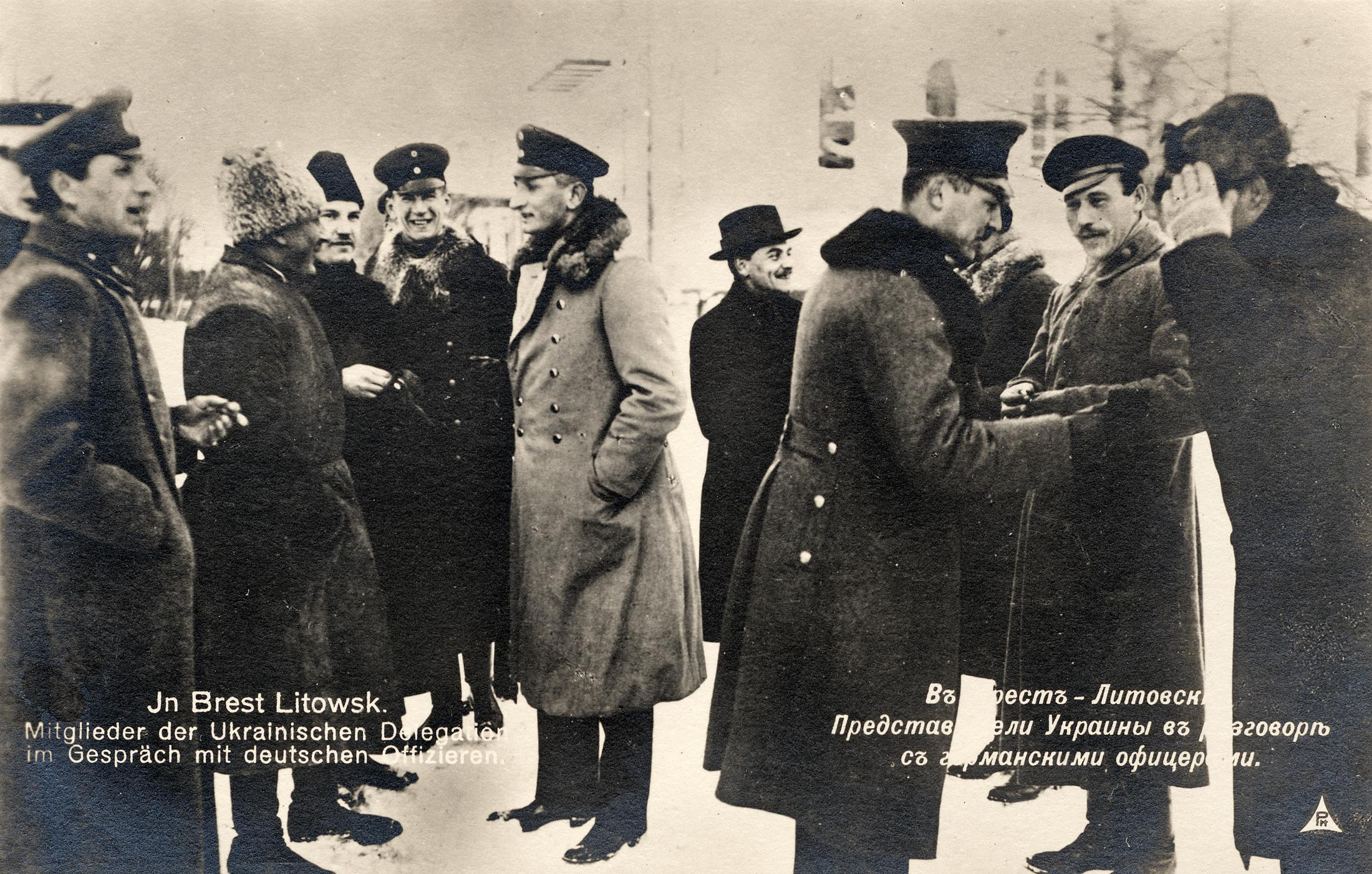 Signing of the Peace Treaty between Ukraine and the Central Powers in Brest-Litovsk February 9, 1918.